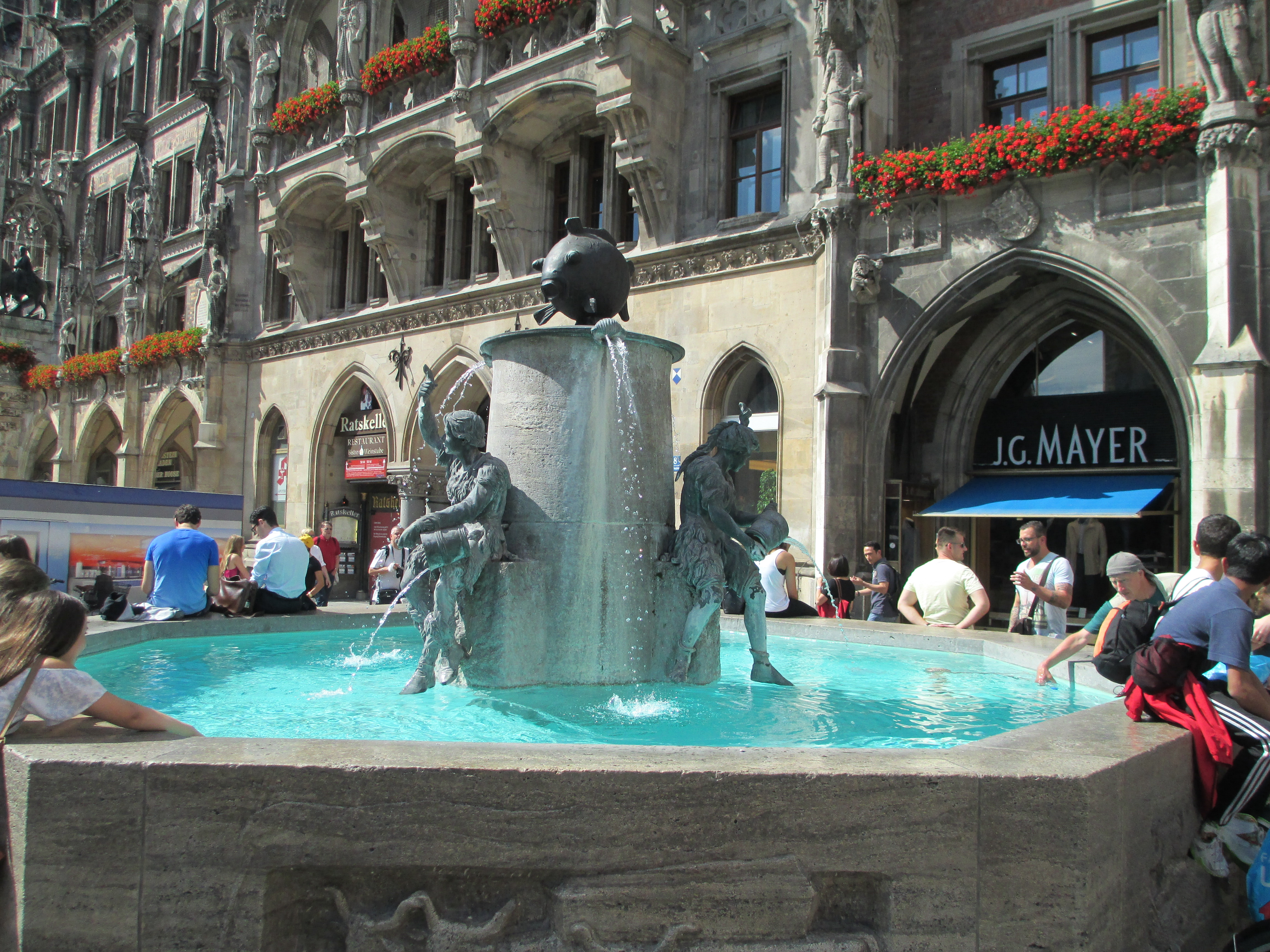 Fischbrunnen - München